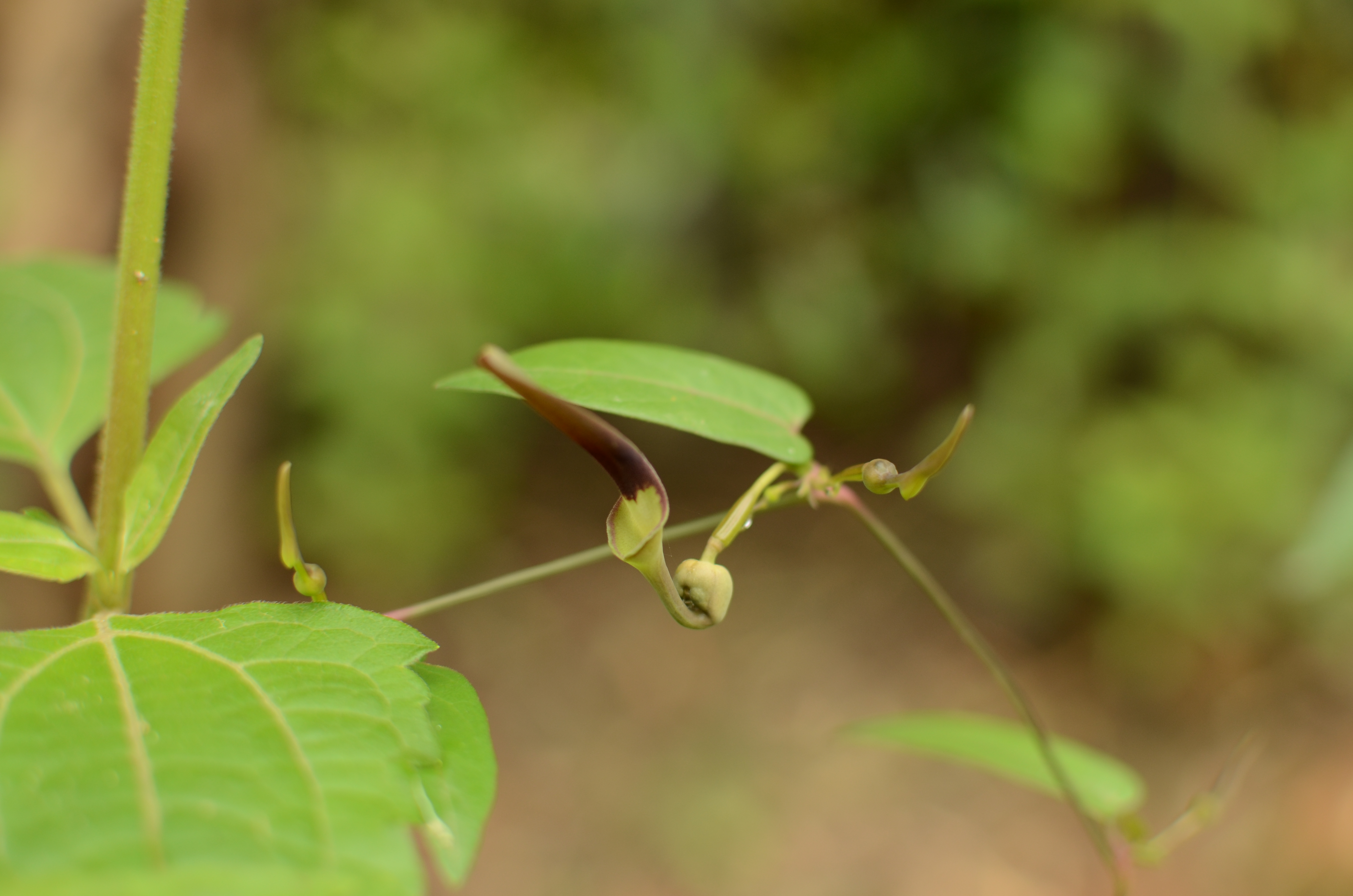 An immature flower of Aristolochia indica